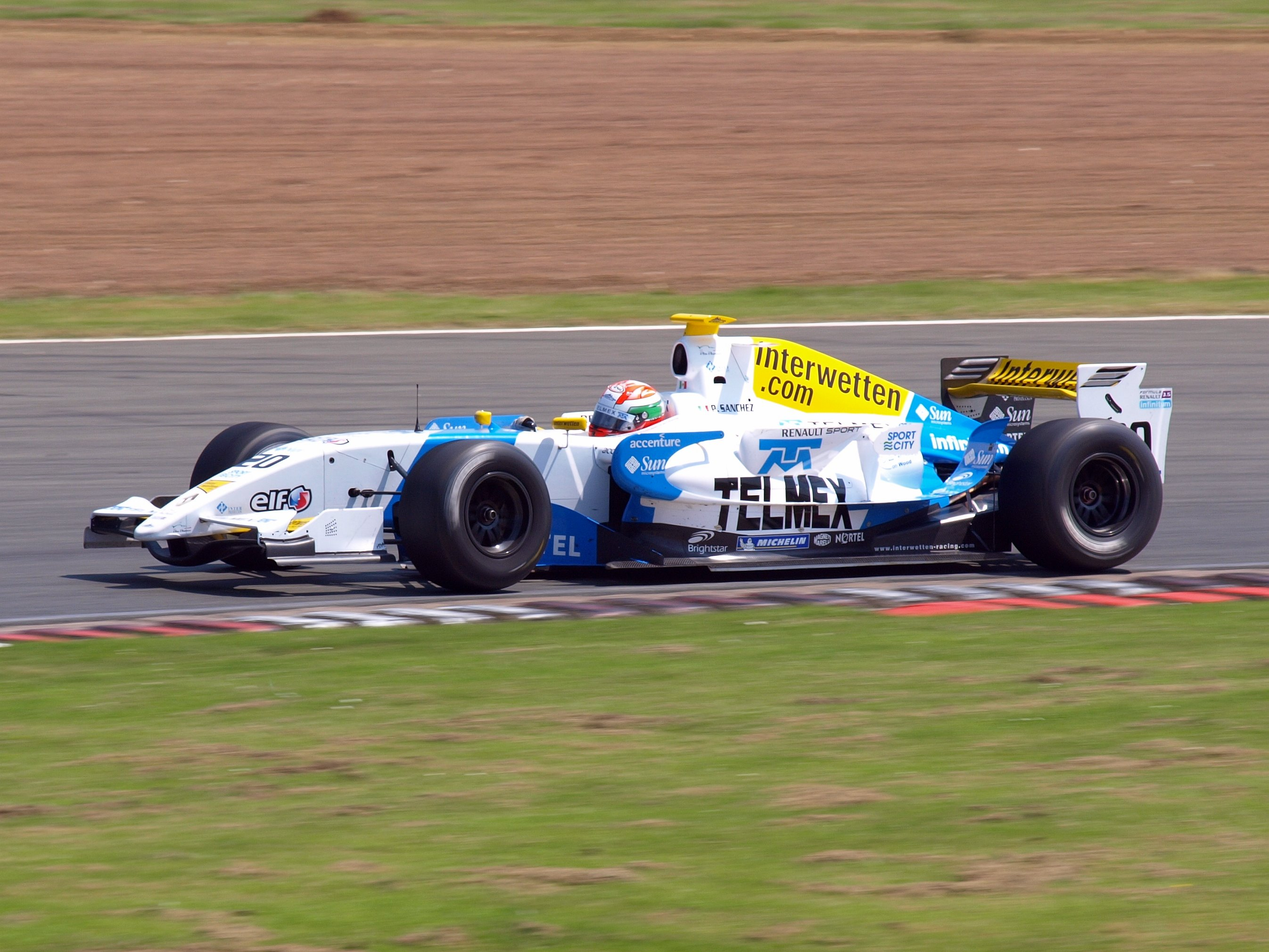 Pablo Sánchez López driving for at the Silverstone round of the 2008 World Series by Renault season.